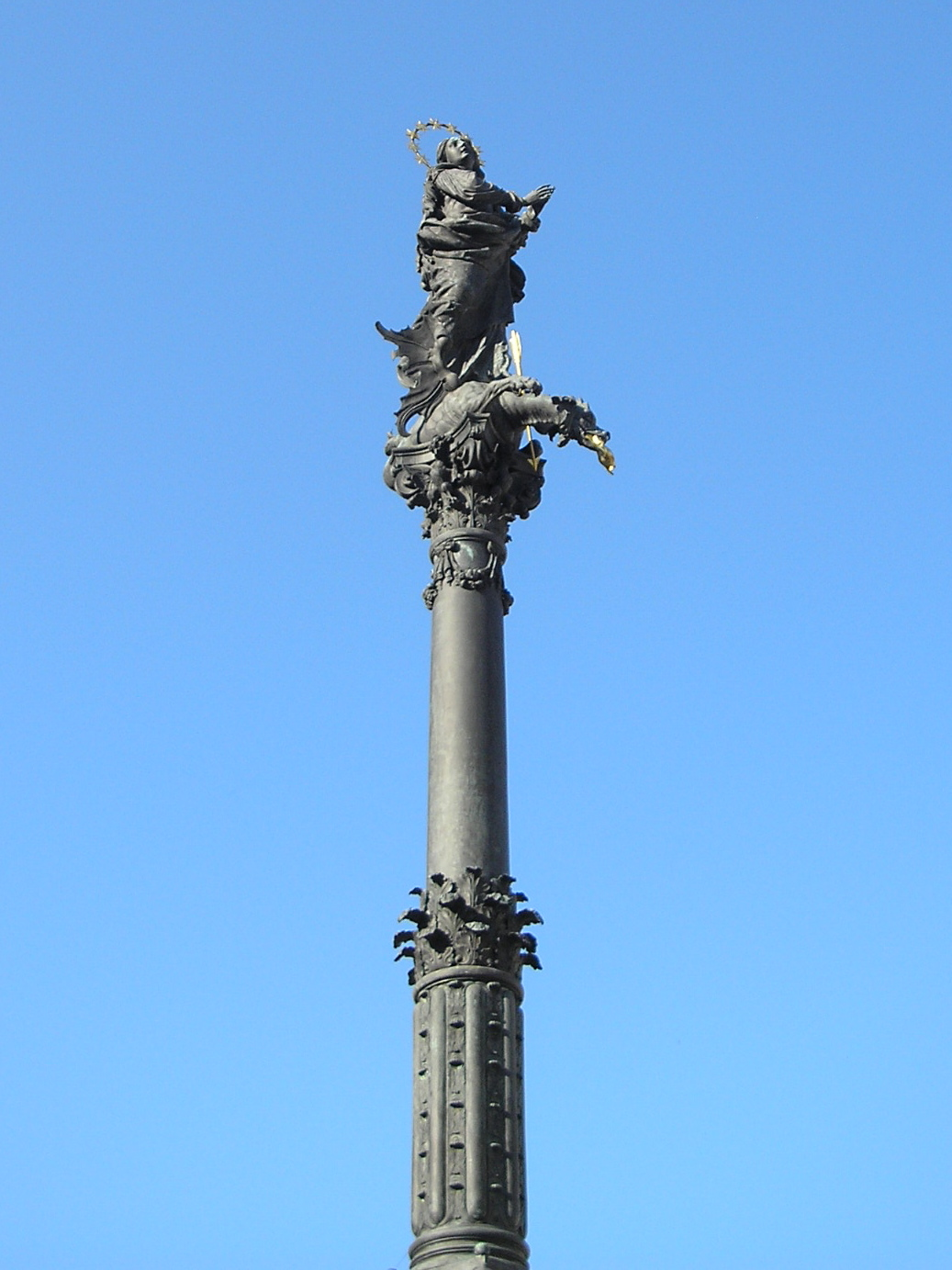 Pillar with the Holy Mary, at Am Hof square in Vienna's first district Innere Stadt.